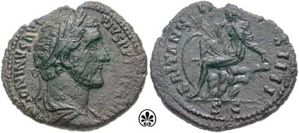 Antoninus Pius. 138-161 AD. Æ As (9.71 gm). Struck 154/5 AD. ANTONINVS AVG PIVS P P TR P XVIII, laureate and draped bust right BRITANN-I[A CO]S IIII, S C in exergue, Britannia seated left on rock, resting head upon hand; shield and vexillum(?) in background before her. RIC III 934; BMCRE 1971; Cohen 117. Good VF, dark green patina, minor porosity. Scarce and popular type. History: There is some debate as to whether or not the BRITANNIA asses of Antoninus Pius were struck in the Roman province of Britannia itself. The latest scholarship (cp. D.R. Walker, The Temple of Sulis Minerva at Bath: Volume 2, the Finds from the Sacred Spring, pp. 295-296) repeatedly alludes to the coins as "British associated," and is careful to draw the line between declaring either a British or a Roman manufacture. In regards to the BRITANNIA dupondii, Walker does state that they were produced in Rome for shipment to Britain, and it is unlikely that the asses would have been manufactured at a mint other than the same as that striking the dupondii. Nevertheless, the peculiar fabric of this issue, so different than that which is normally encountered and is of unquestionable provenance, as well as the fact that not a single specimen has been excavated outside of Britain would seem to indicate that provincial manufacture is not unlikely.